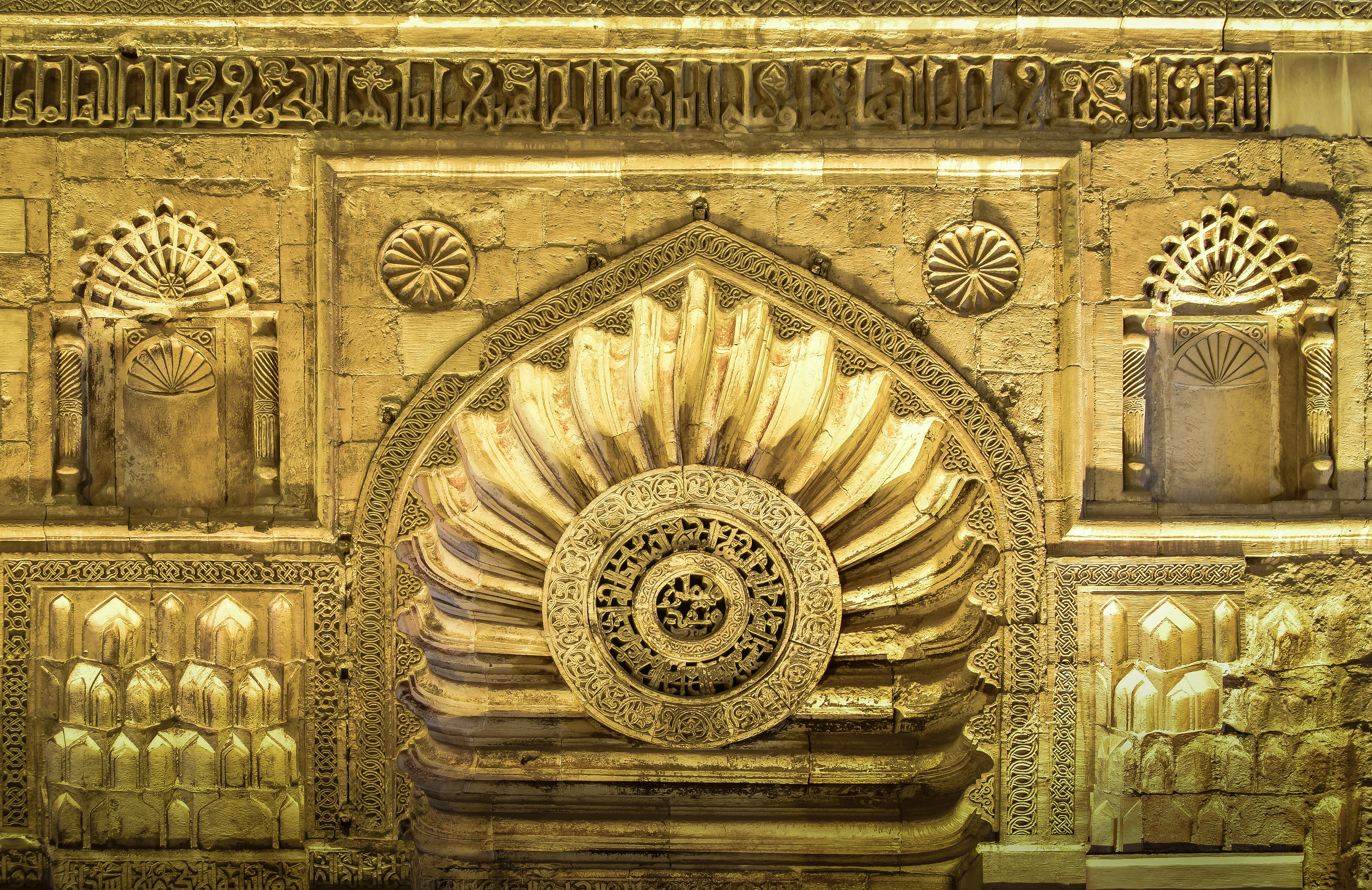 Al-Jam`e Al-ِAqmar or Al-Aqmar Mosque, also called Gray mosque, is a mosque in Cairo, Egypt dating from the Fatimid era. It was built under vizier al-Ma'mun al-Bata'ihi during the caliphate of Imam Al-Amir bi-Ahkami l-Lah.